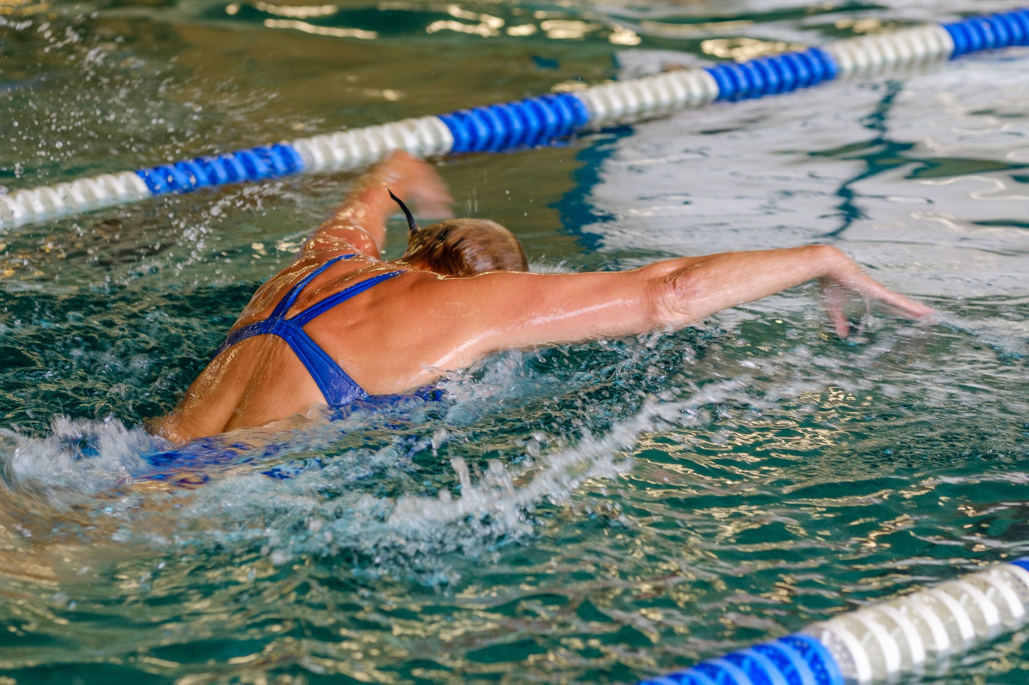 Woman swimming the butterfly stroke, arm position shortly before entering the water again; view from behind